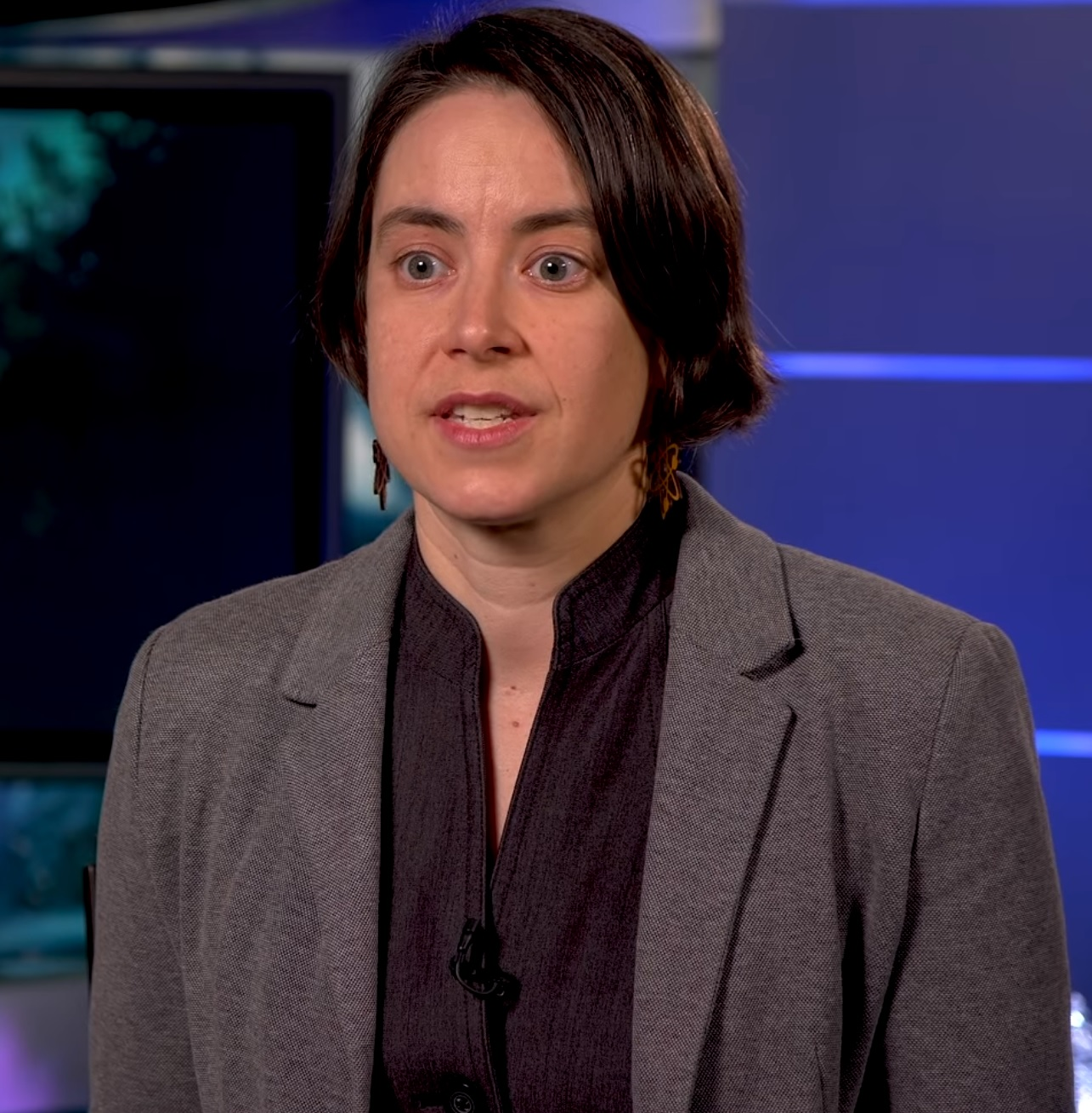 For the first time, scientists have ground and satellite views of STEVE (short for Strong Thermal Emission Velocity Enhancement), a thin purple ribbon of light. Scientists have now learned, despite its ordinary name, that STEVE may be an extraordinary puzzle piece in painting a better picture of how Earth's magnetic fields function and interact with charged particles in space. The Aurorasaurus team, led by Liz MacDonald, a space scientist at NASA's Goddard Space Flight Center in Greenbelt, Maryland, conferred to determine the identity of this mysterious phenomenon. MacDonald and her colleague Eric Donovan at the University of Calgary in Canada talked with the amateur photographers from the Alberta Aurora Chasers, the people who first captured images of STEVE. Other collaborators on this work are: the University of Calgary, New Mexico Consortium, Boston University, Lancaster University, Athabasca University, Los Alamos National Laboratory, and the Alberta Aurora Chasers Facebook group. Watch this video on the NASA Goddard YouTube channel. Music credit: Bright Patterns by Gregg Lehrman, John Christopher Nye Complete transcript available. Read more: This video is public domain and along with other supporting visualizations can be downloaded from the Scientific Visualization Studio at: Credit: NASA's Goddard Space Flight Center/Genna Duberstein If you liked this video, subscribe to the NASA Goddard YouTube channel: Follow NASA’s Goddard Space Flight Center · Facebook: · Twitter · Flickr · Instagram · Google+